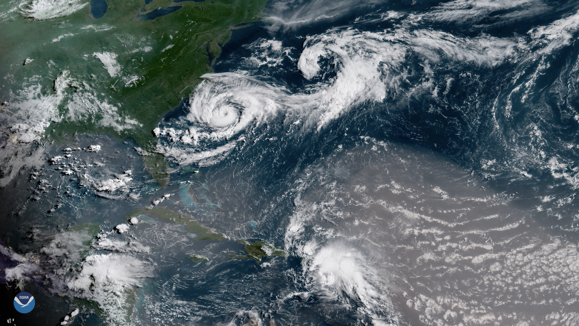 Several interesting atmospheric features appear in this GOES East satellite image of the western Atlantic Ocean, captured July 9, 2018. The small eye of Tropical Storm Chris is visible off the coast of the Carolinas, while in the eastern Caribbean Sea, we can see the remnants of former Hurricane Beryl, around which a thick plume of Saharan dust is wrapping north and east of the storm. Chris, which formed on July 8, is the third named storm of the 2018 Atlantic hurricane season. In its latest update, the National Hurricane Center reported the storm had sustained winds near 60 mph and remains stalled a few hundred miles off the coast of North Carolina. The storm is expected to strengthen to a hurricane before weakening again as it tracks northeastward toward Newfoundland later this week. Meanwhile, in the Caribbean, the disorganized remants of Beryl can be seen east of the island of Hispaniola. The storm is currently bringing heavy rain to Puerto Rico and the Virgin Islands, and has a 40 percent chance of re-strengthening to a tropical storm or depression over the next five days. North and east of the storm, a hazy cloud of Saharan dust is visible in the lower-right portion of this image. Known as the Saharan Air Layer, this dry, dusty air mass has been a persistent feature over the tropical Atlantic Ocean in recent weeks. This geocolor enhanced imagery was created by NOAA's partners at the Cooperative Institute for Research in the Atmosphere. The GOES East geostationary satellite, also known as GOES-16, provides coverage of the Western Hemisphere, including the United States, the Atlantic Ocean and the Gulf of Mexico. The satellite's high-resolution imagery provides optimal viewing of severe weather, such as hurricanes and tropical storms, as well as atmospheric aerosols such as dust and sand. Credit: NOAA